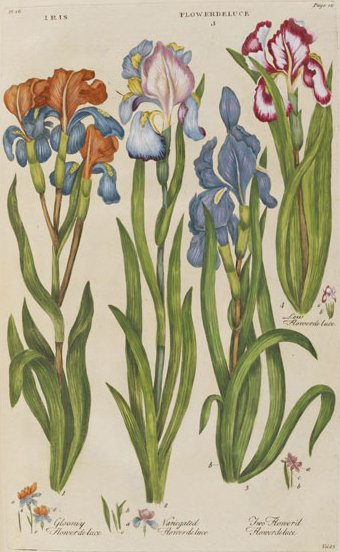 Irises from The Vegetable System by John Hill, 1759-86